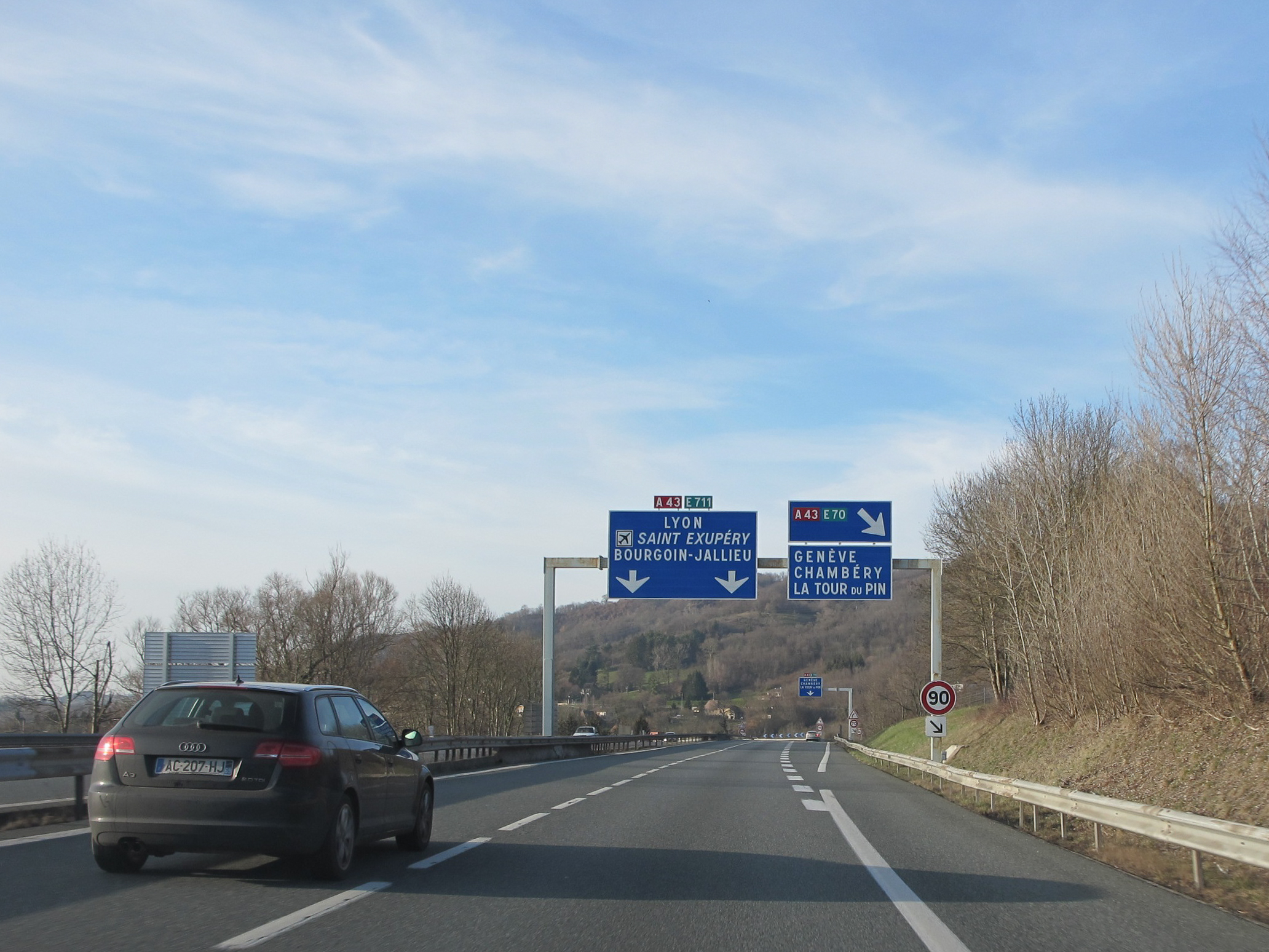 Bifurcation A48-A43 (sens Grenoble-Lyon) / Autoroure A48, Isére France